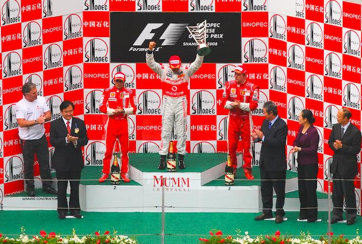 2008 Chinese Grand Prix, Top 3